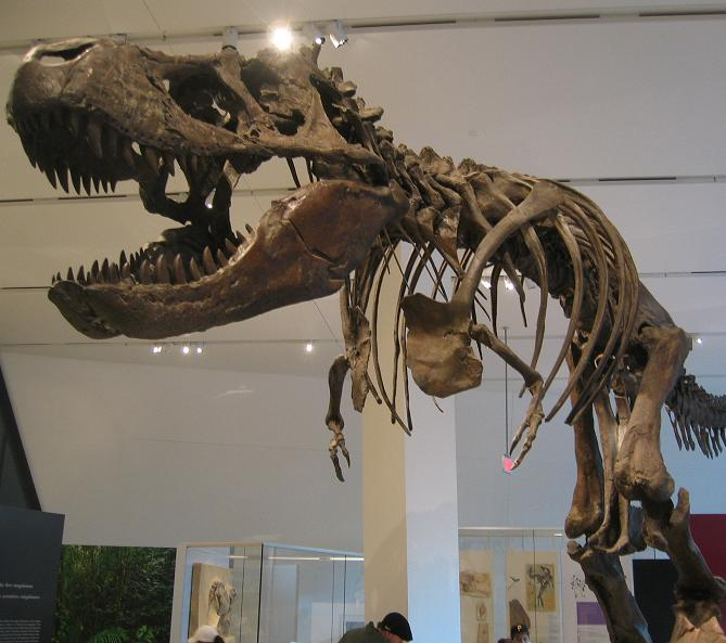 Royal Ontario Museum: Tyrannosaurus rex.